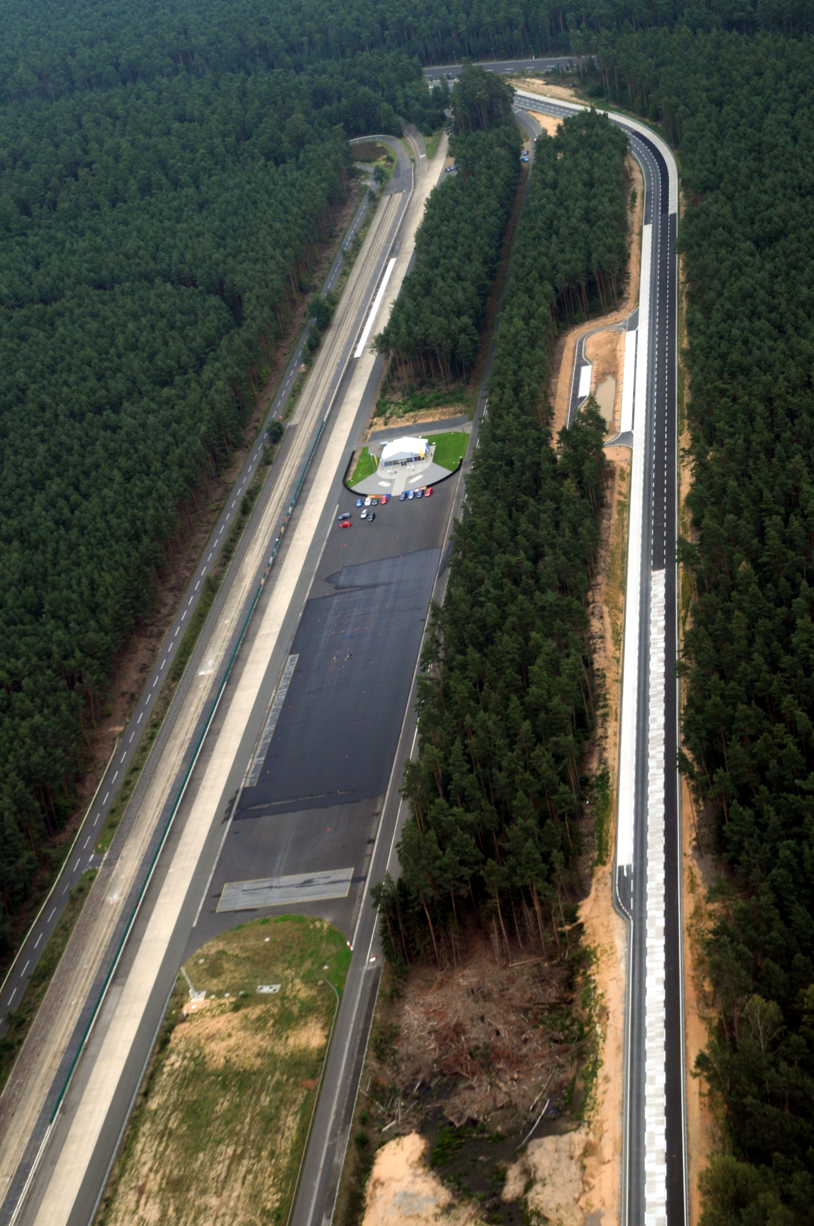 Opel test tracks, Dudenhofen, Rodgau, Hesse, Germany, aerial photograph